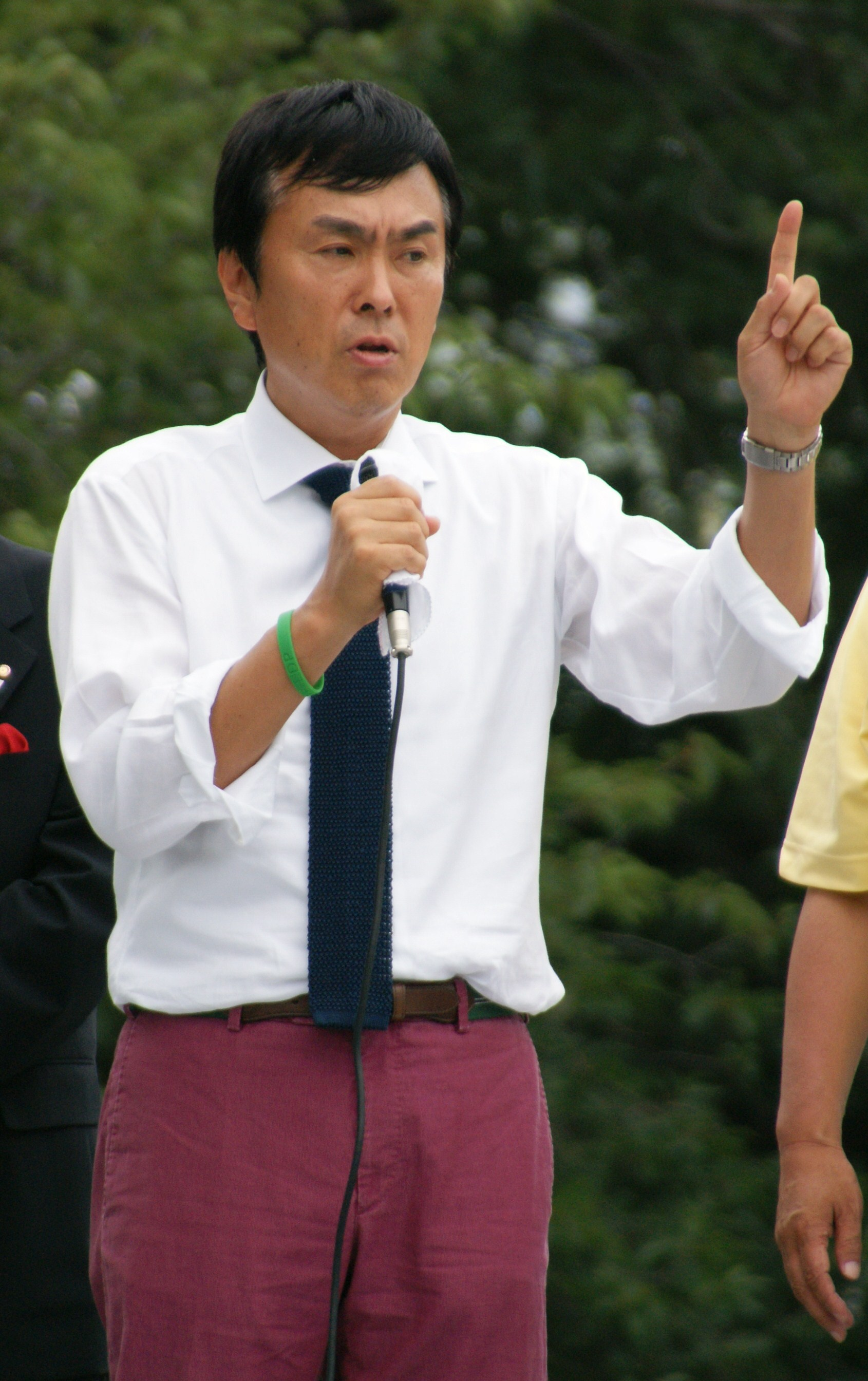 Former Japanese Minister of Land, Infrastructure, Transport and Tourism, Nobuteru Ishihara, speaking in front of Wakaba Station in Sakado, Saitama Prefecture, Japan